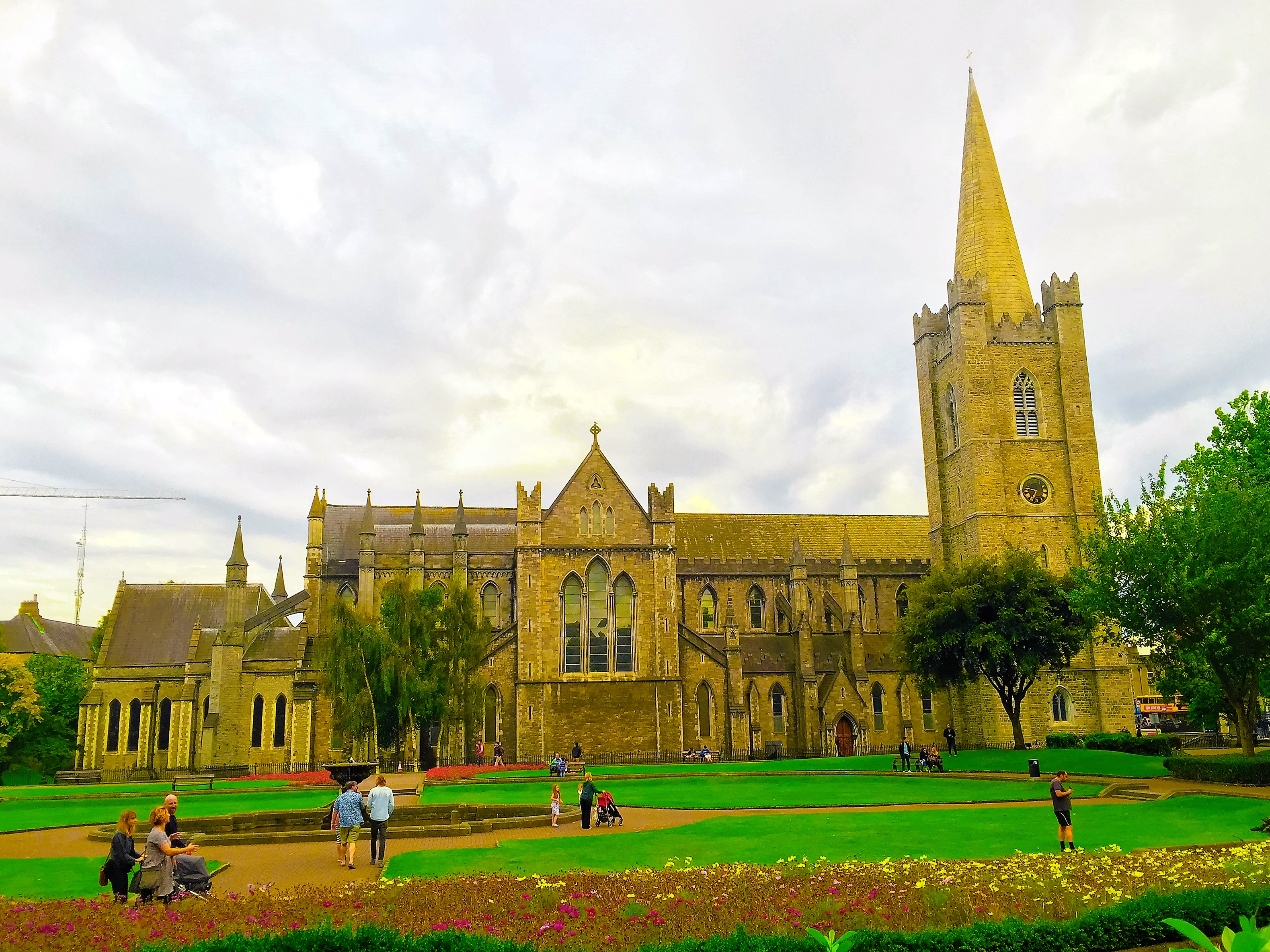 Dublin Castle